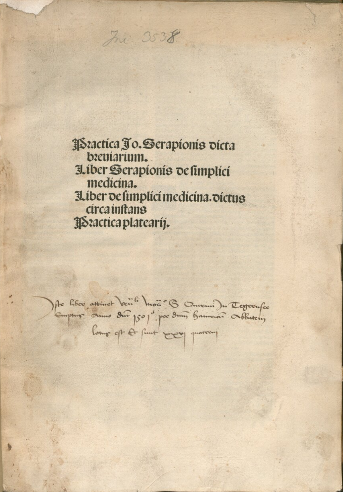 Practica Jo. Serapionis [etc.] title page